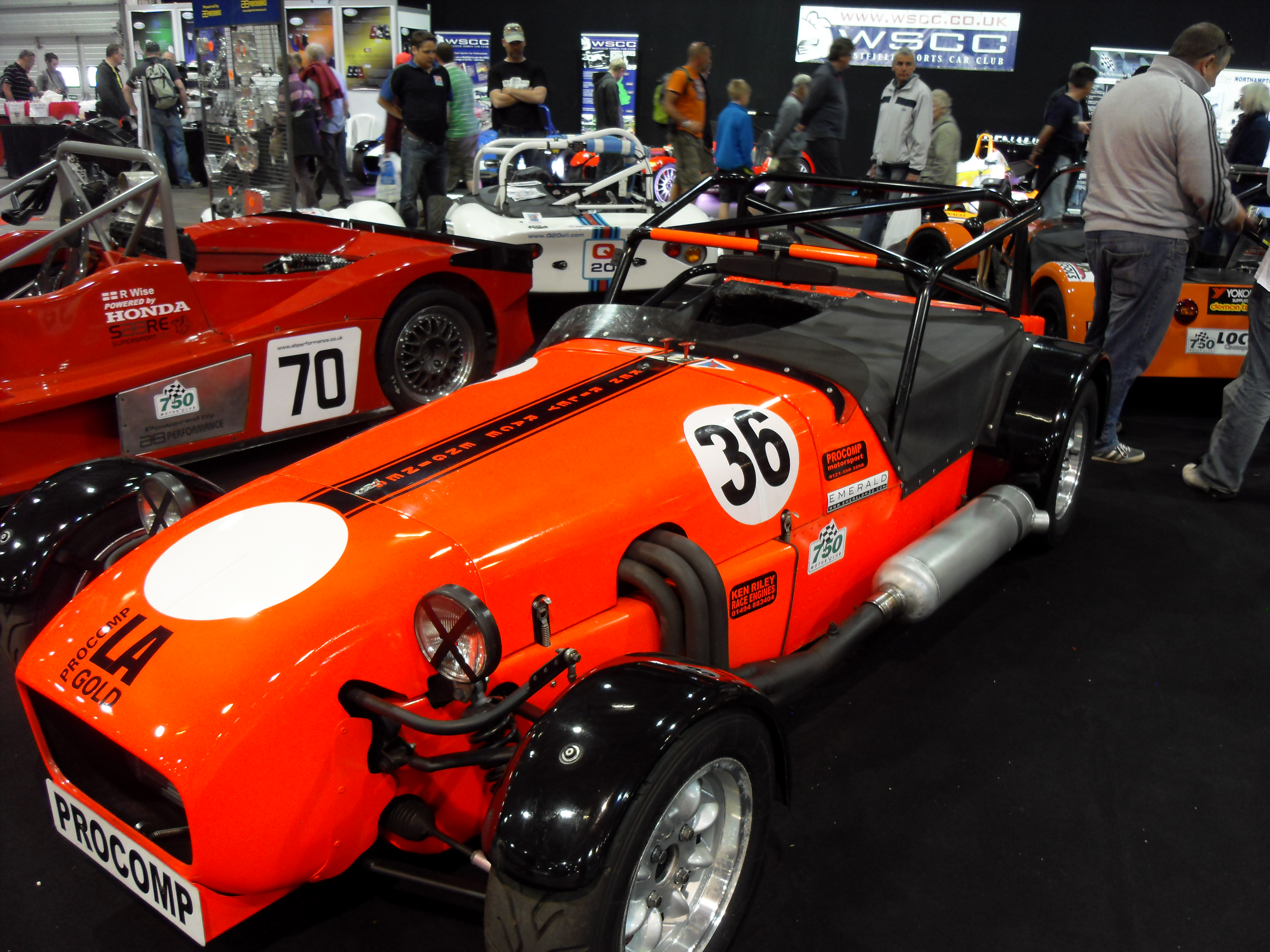 National Kit Car Show Stoneleigh 2011